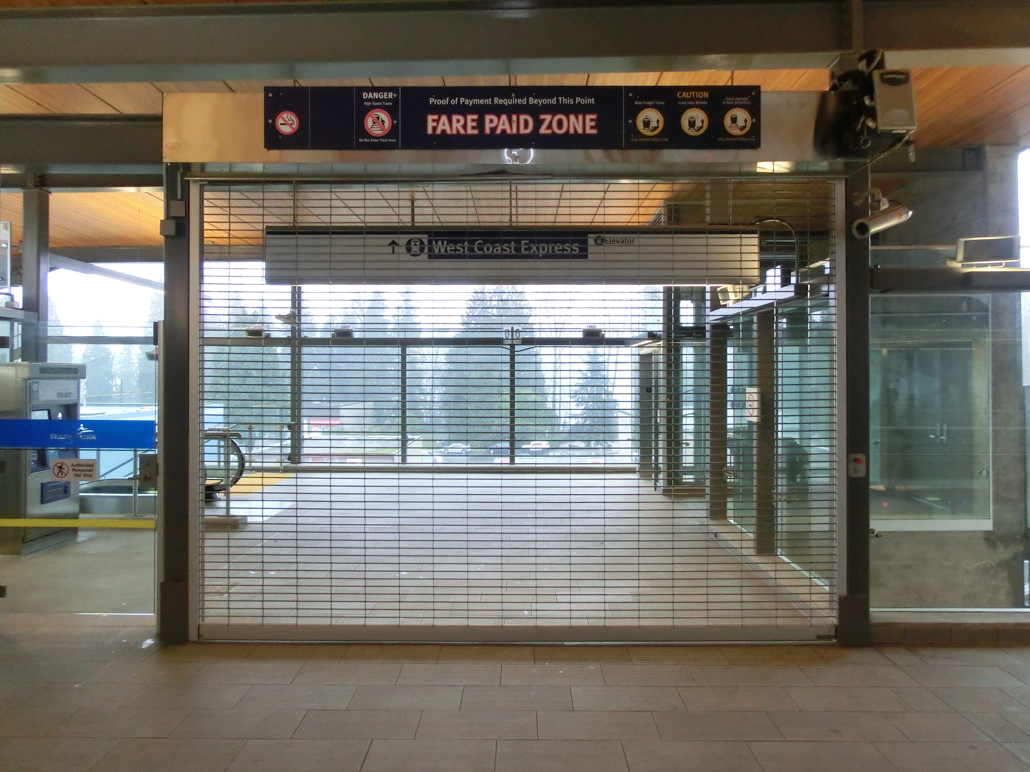 Entrance to the Port Moody railway station from Moody Centre SkyTrain station